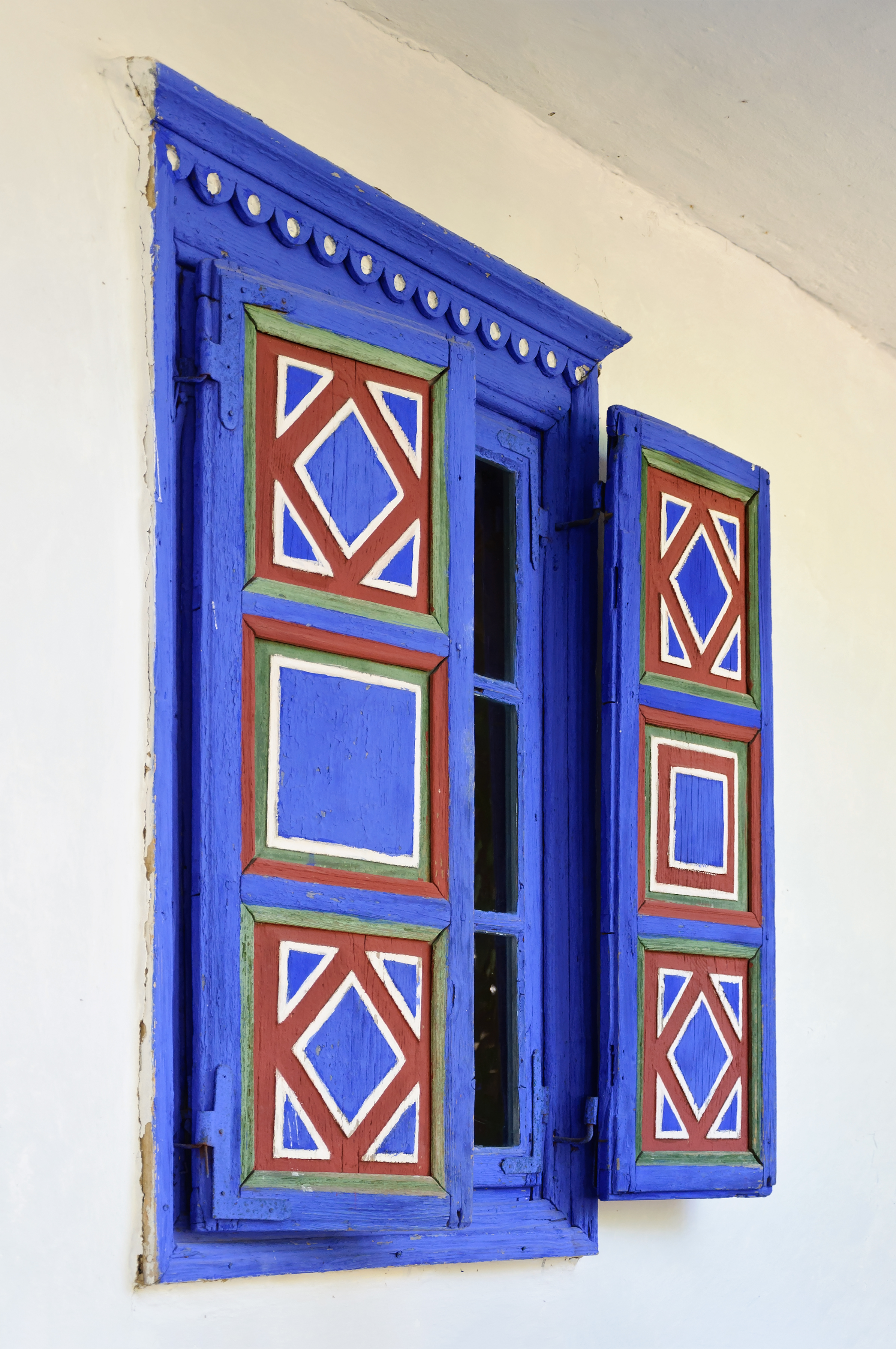 Window with colored window shutters of a 1898 household from Jurilovca - Village Museum, Bucharest, Romania.